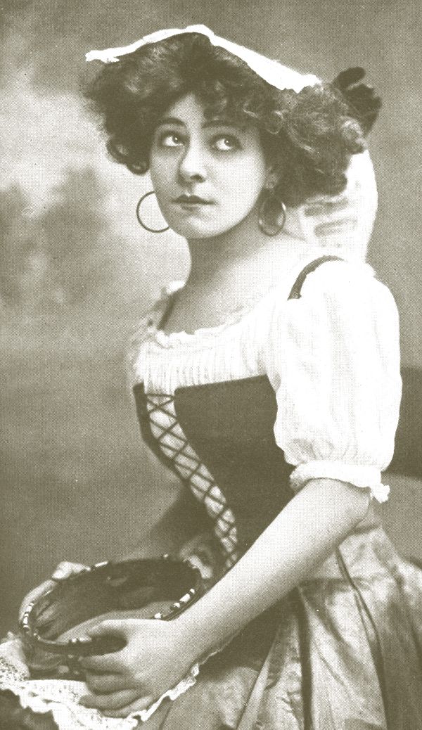 Alla Nazimova in the 1922 film of A Doll's House.